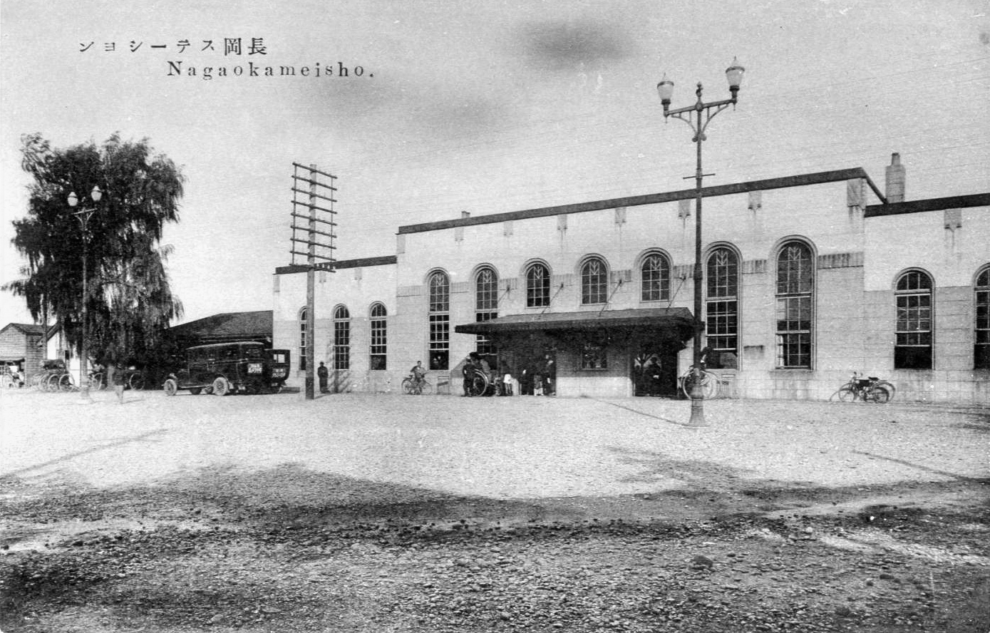 Postcard of the Nagaoka Station in the Early Shōwa era